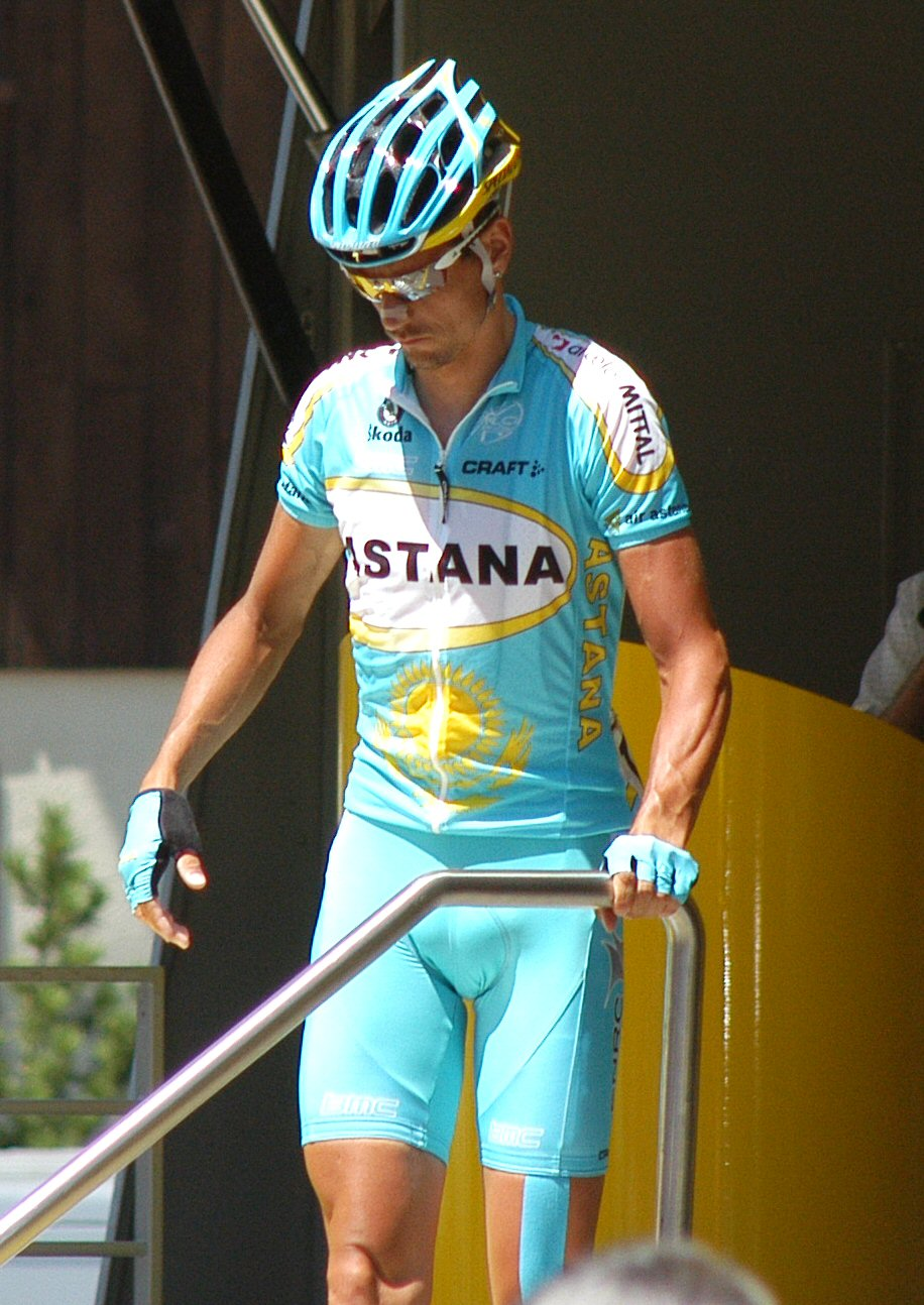 Andreas Klöden at the start of stage 8 in Le Grand Bornand, Tour de France 2007.